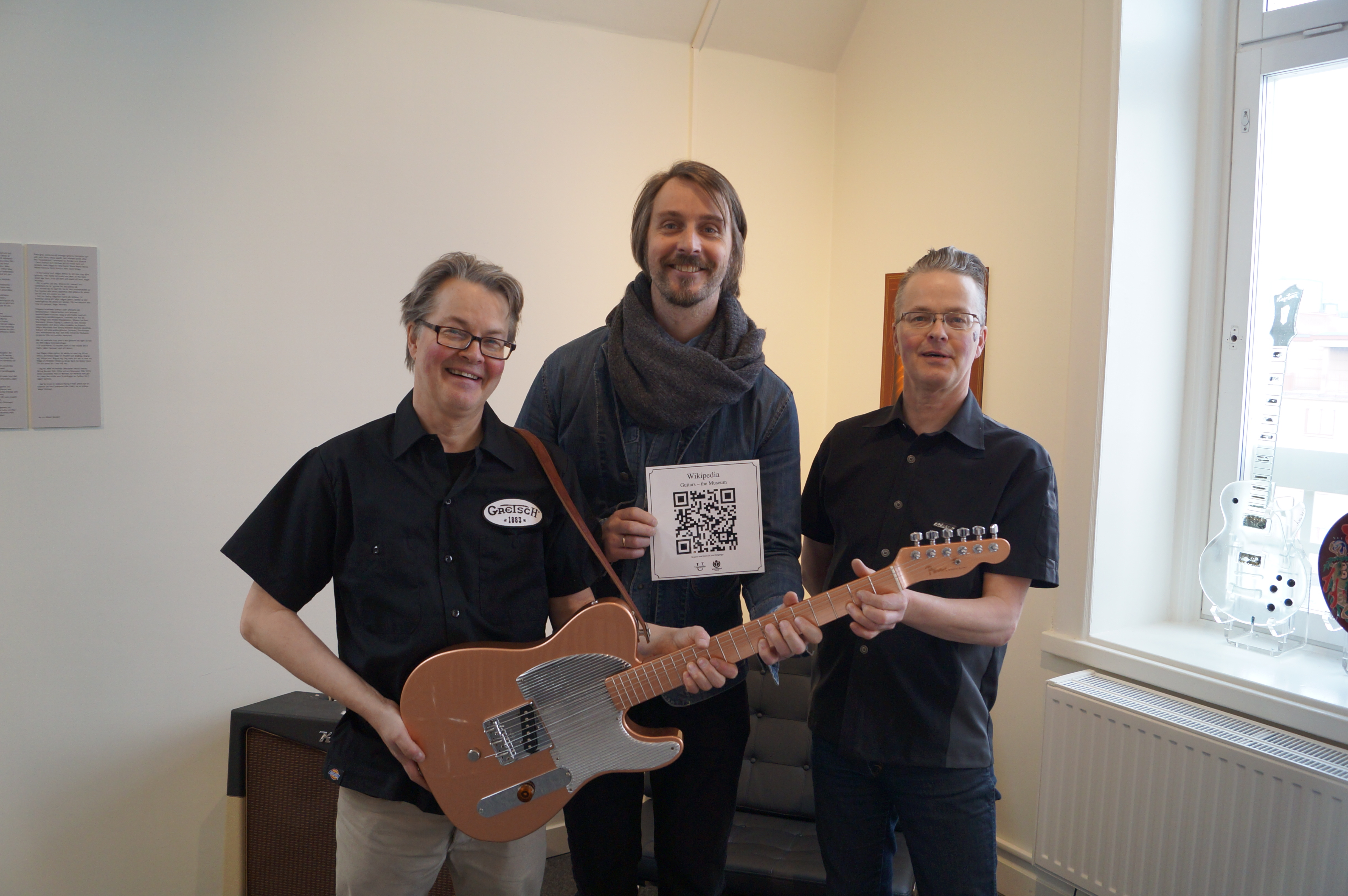 An Umepedia sign at Guitars – The Museum, held by the three founders.